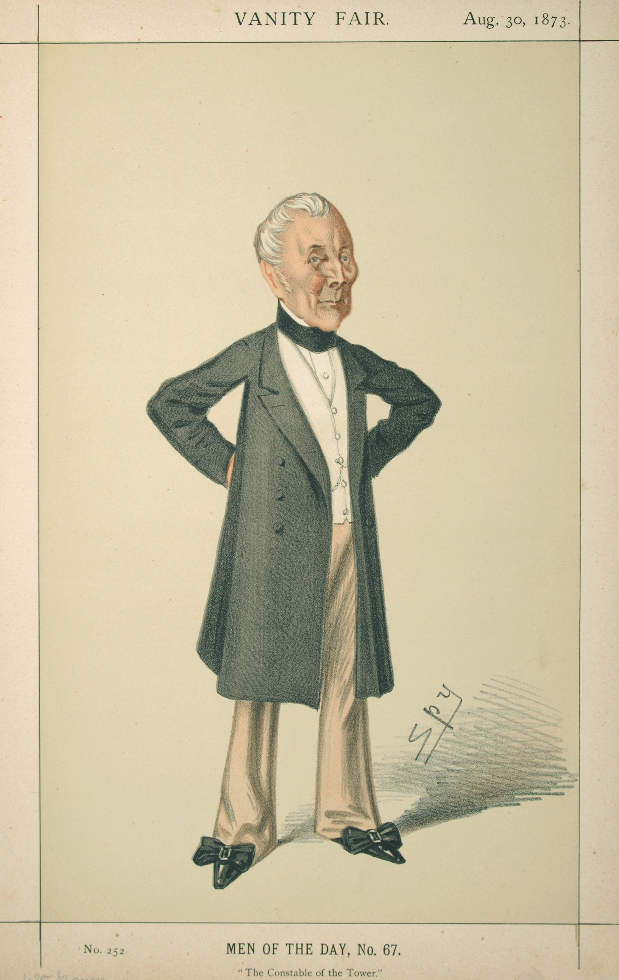 Men of the Day No.67: Caricature of FM Sir WM Gomm GCB. Caption reads: "The Constable of the Tower"